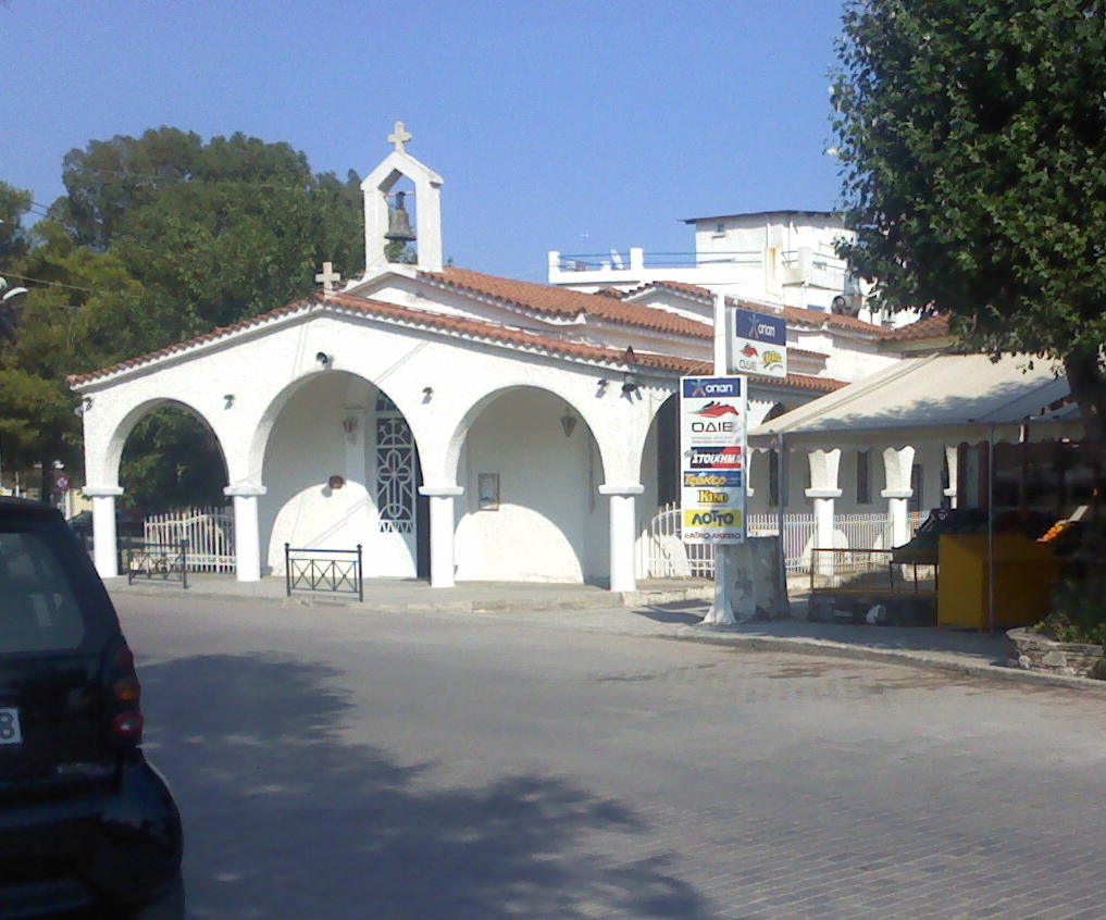 Church Agios Panteleimon Marathon